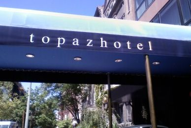 Topaz Hotel entrance